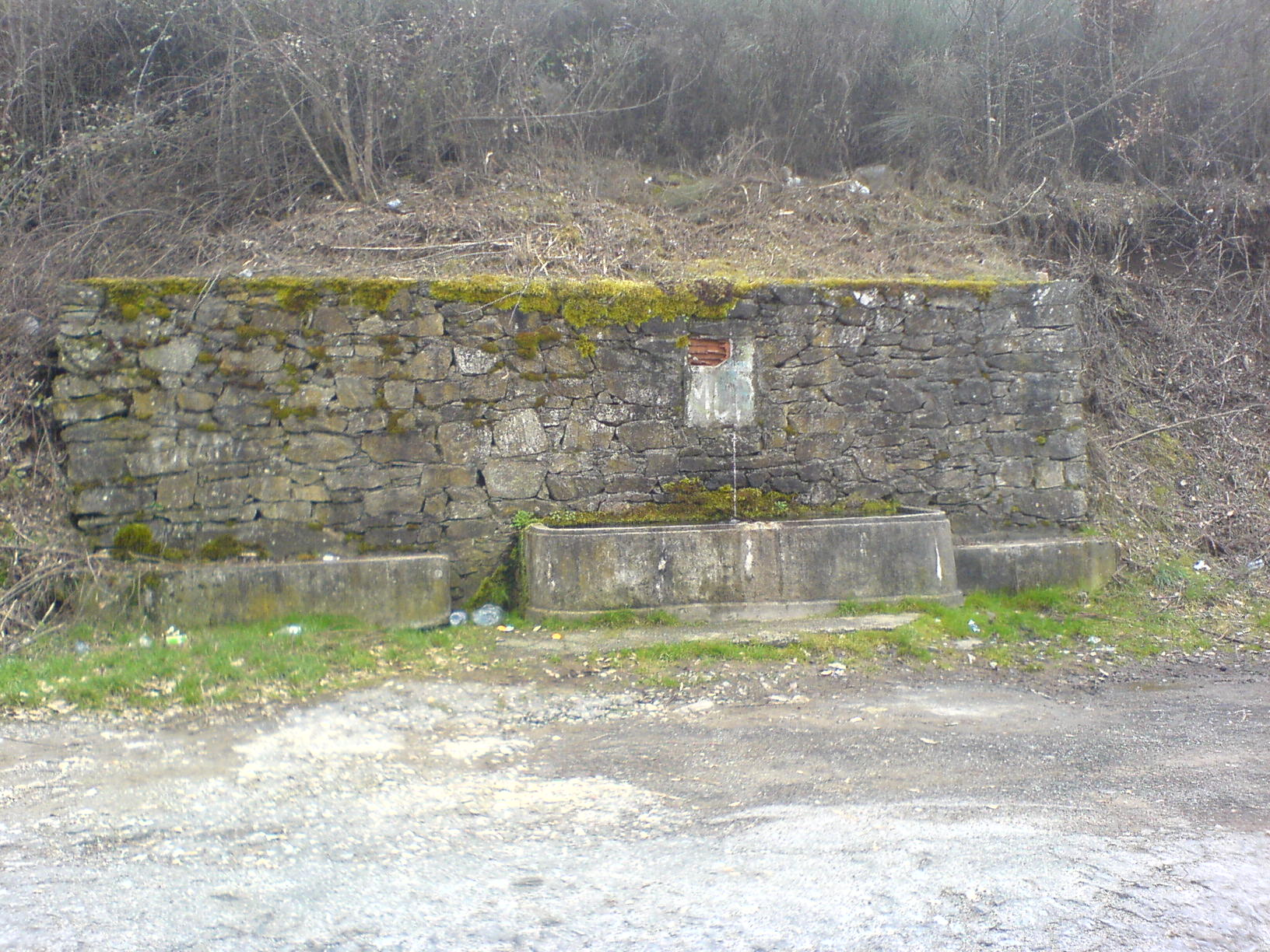 Penacal fountain, Portugal